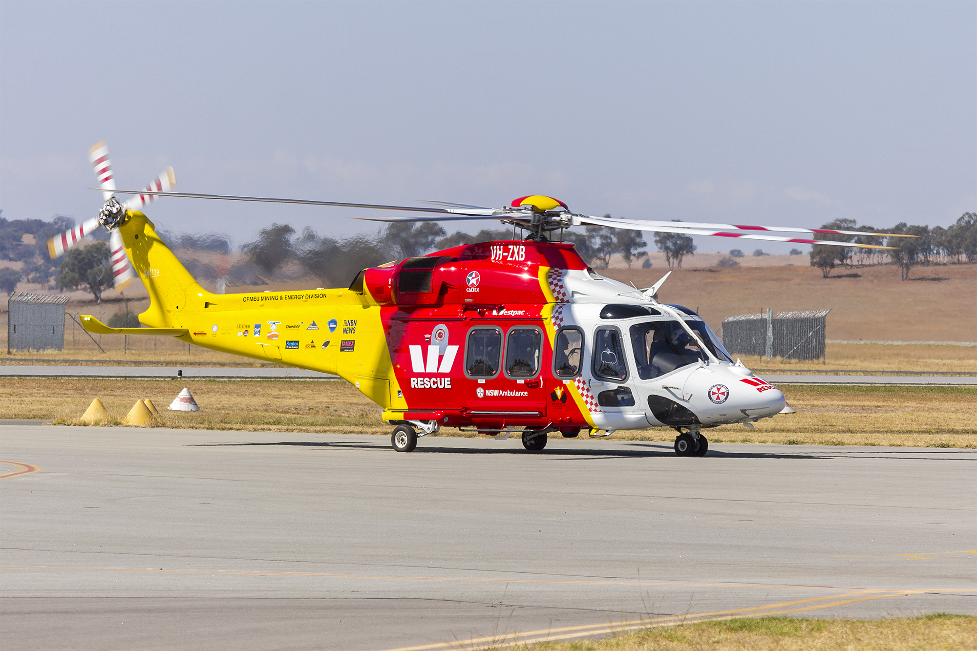 Northern NSW Helicopter Rescue Service Limited (VH-ZXB), operated on behalf of Ambulance Service of New South Wales, Finmeccanica S.P.A AW139 at Wagga Wagga Airport.